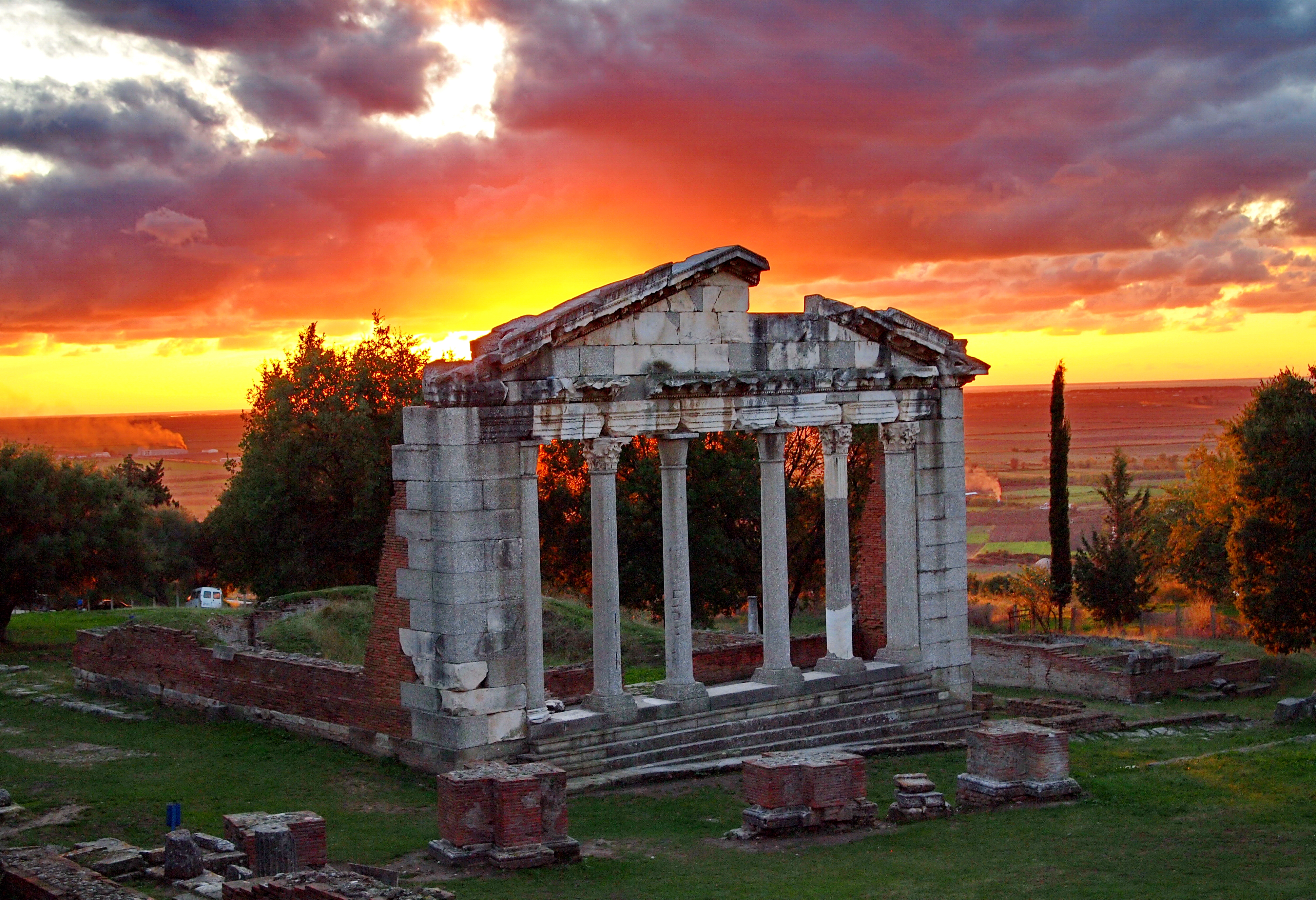 Archaeological Park of Apollonia